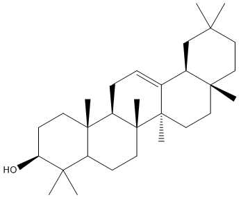 Chemical structure of beta-amyrine